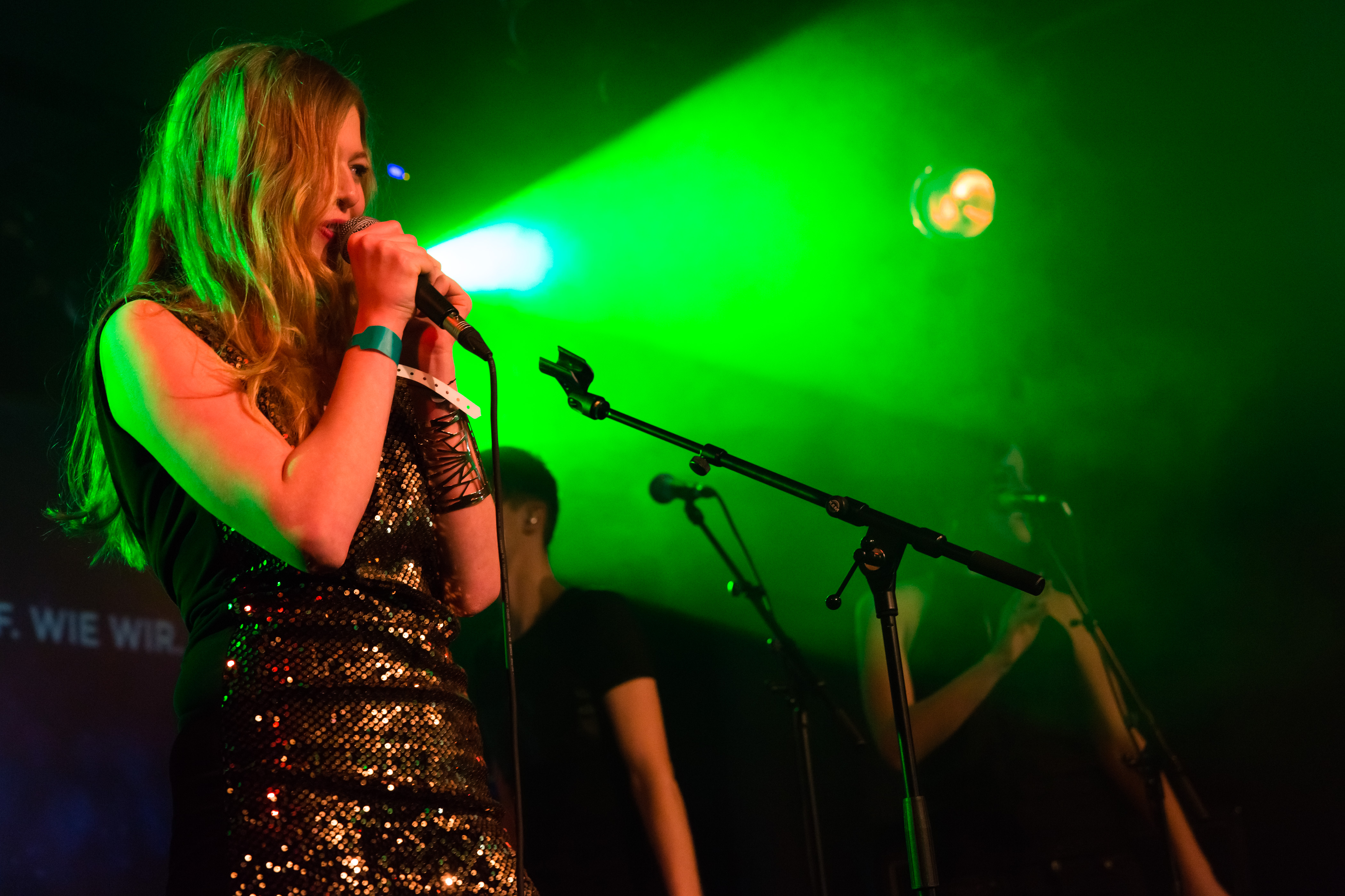 Zoe at the concert of the Austrian candidates for participating at the Eurovision Song Contest 2015; Chaya Fuera, Vienna,Austria.